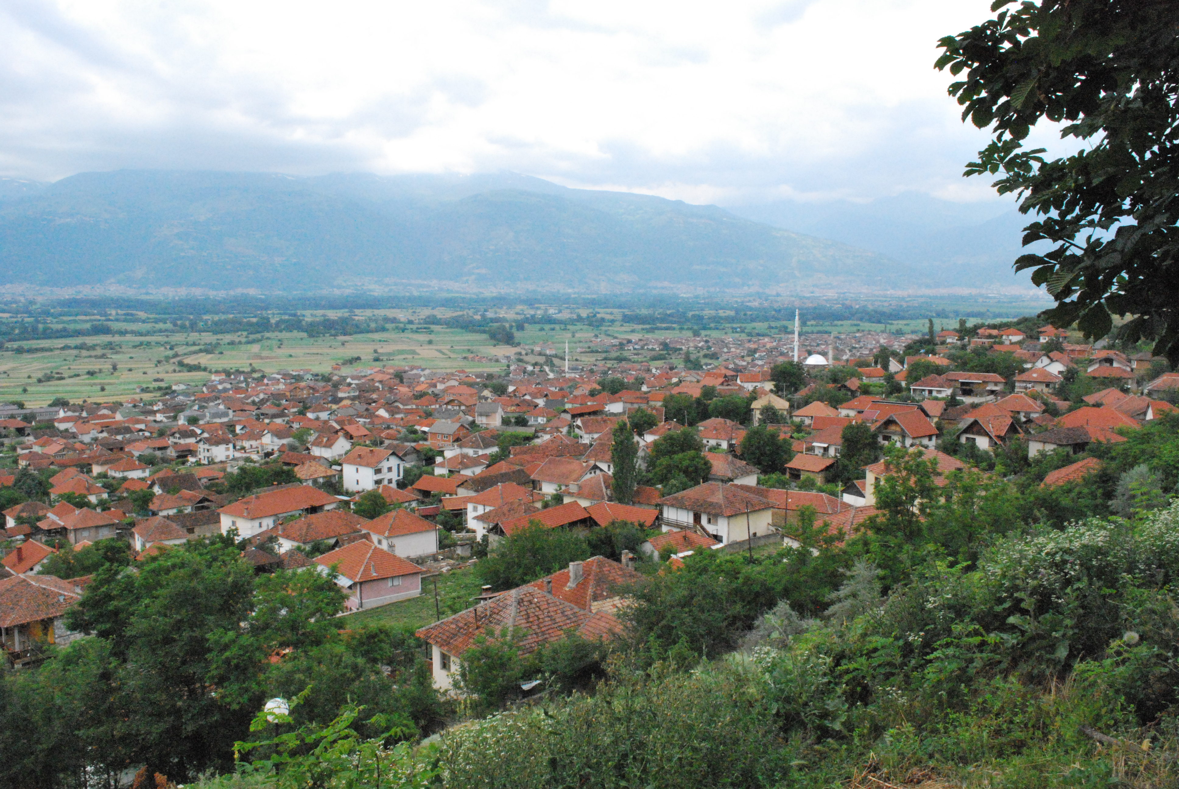 Village of Čelopek, near Tetovo, Macedonia